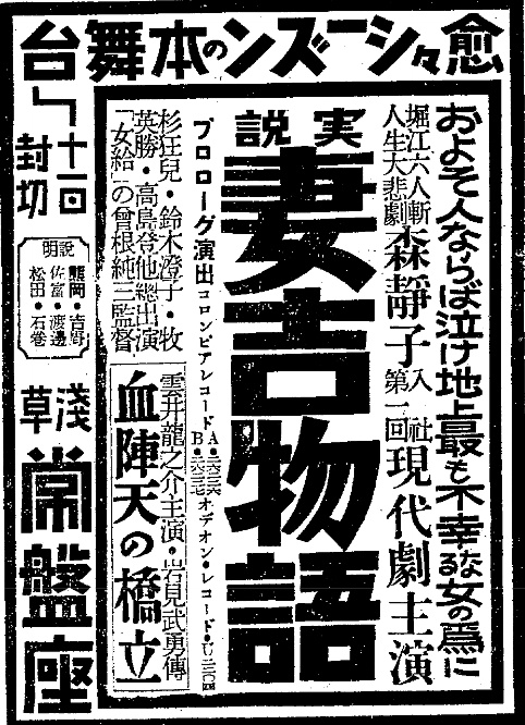 Tsumakichi Monogatari